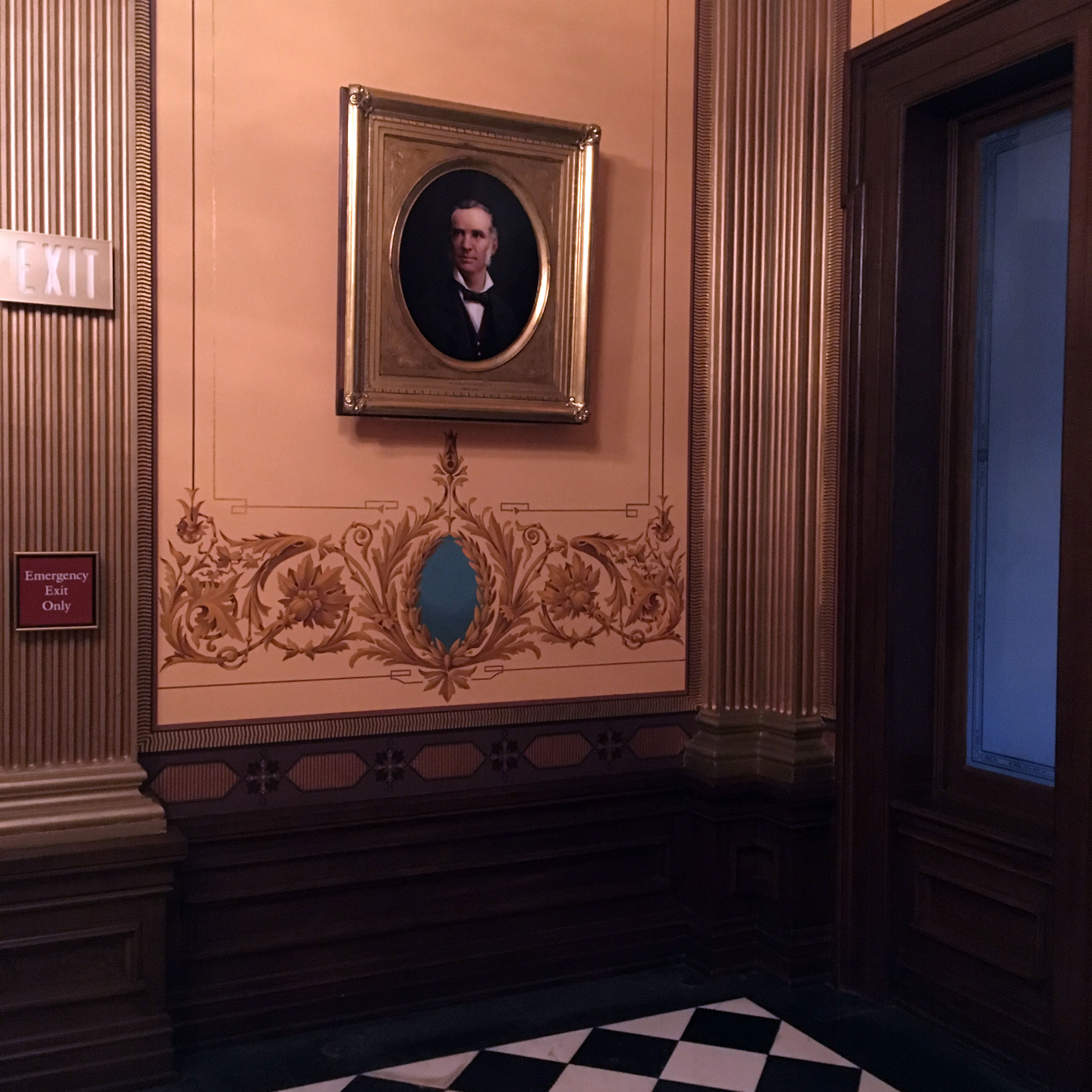 A painting of Charles Croswell the 17th Governor of the US state of Michigan from 1877 to 1881. The painting and frame were created by Joshua Adam Risner in 2017 and now hang in the Michigan State Capitol.